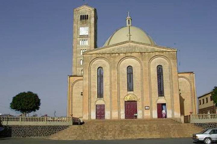 A Kidanemhret Catholic church in Asmara, Eritrea, part of the Ethiopian Catholic Church.